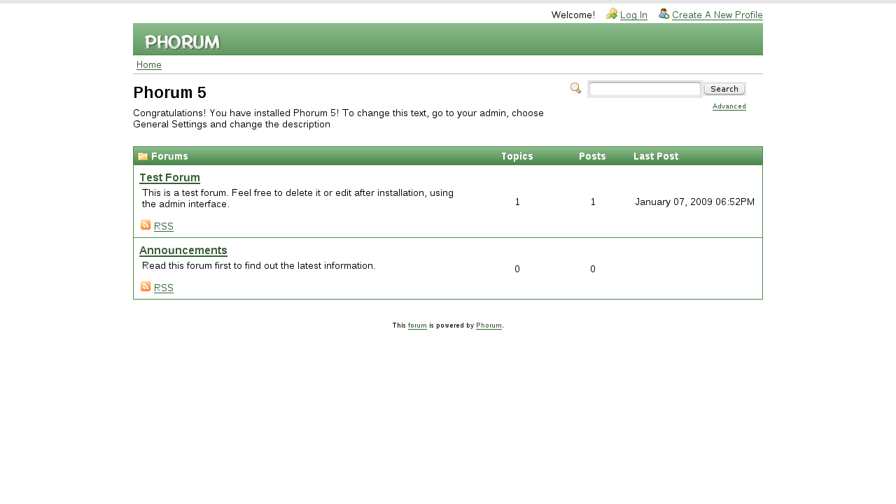 Screenshot of Phorum, version 5.2.9, as rendered by Mozilla Firefox 3.0